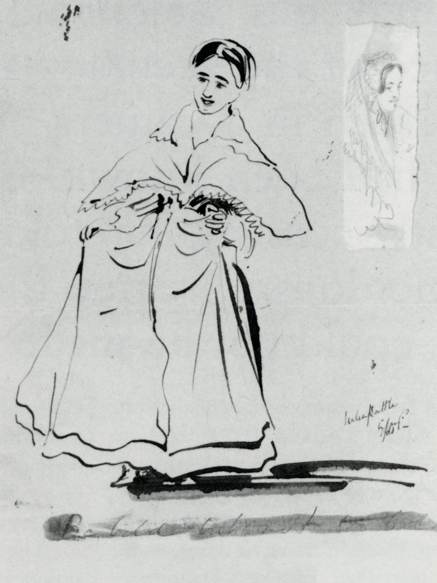 Drawing (detail). Collection Sven Gahlin, London.